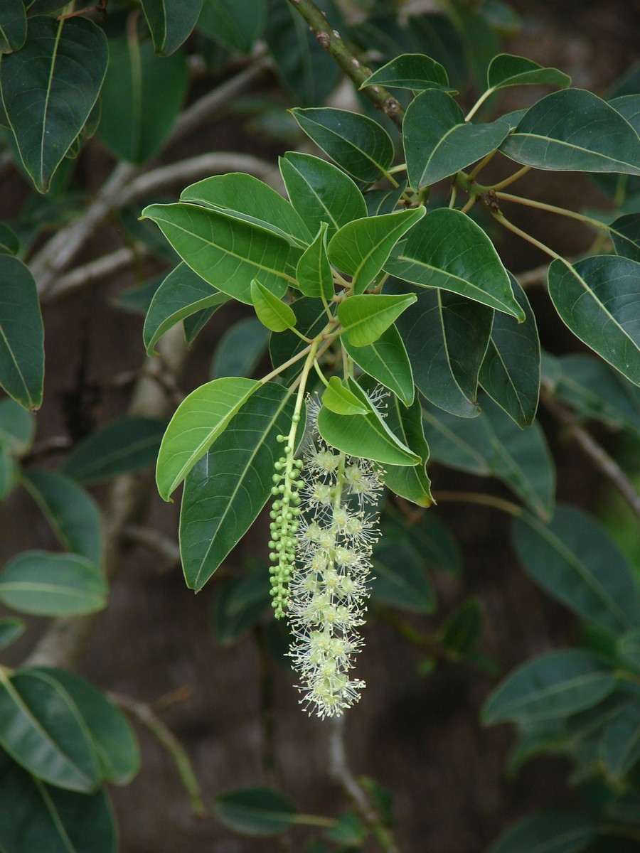 Phytolacca dioica Phytolaccaceae Common names: * omb� (Spanish, Argentine) * belhambra (English) * bobbejaandruifboom (Afrikaans) * bella sombra ( Spanish) it is a very large tree with massive trunk (the photo below), and I was much surprised to find out it is actually not a tree but a giant evergreen herb with a soft sappy woody stem! Its multiple stems grow together forming a big nice shady tree. The Ombu native to Argentina, Brazil and Uruguay. It is the only tree-like plant that lives on the Pampas. Good info here: Location: Mt. Coot-tha Botanic Garden, Brisbane, Australia